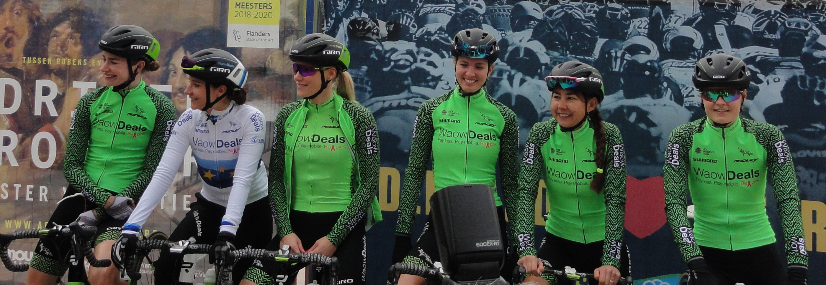 Team Waowdeal at start of RVV 2018.